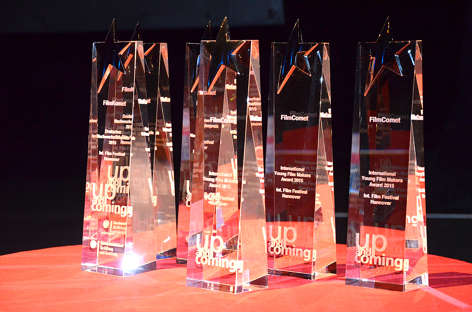 The awards Deutscher Nachwuchsfilmpreis and „International Young Film Makers Award 2015“ on the „13th International up-and-coming Film Festival in Hannover“ ...